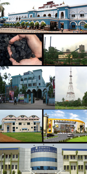 Asansol skyline